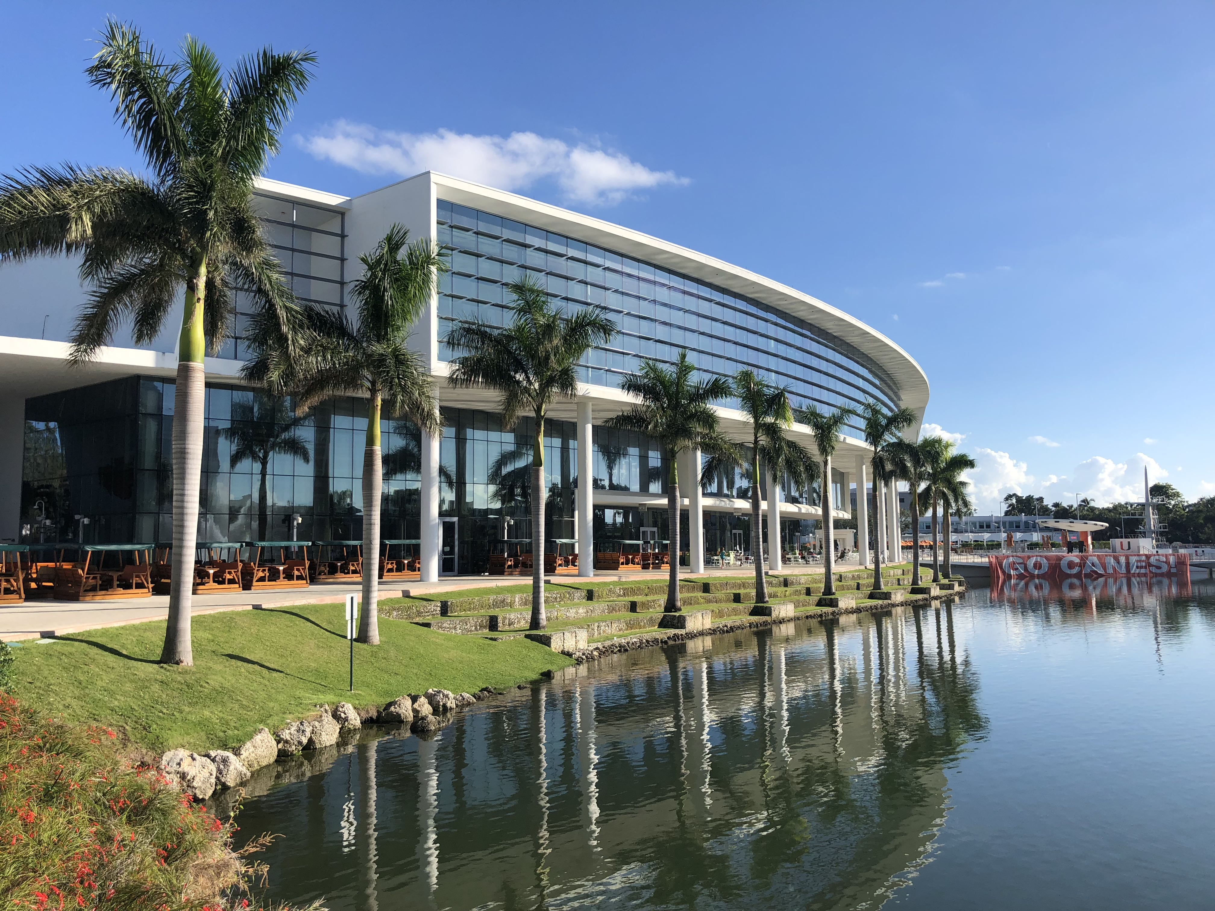 View of Shalala Student Center at the University of Miami.